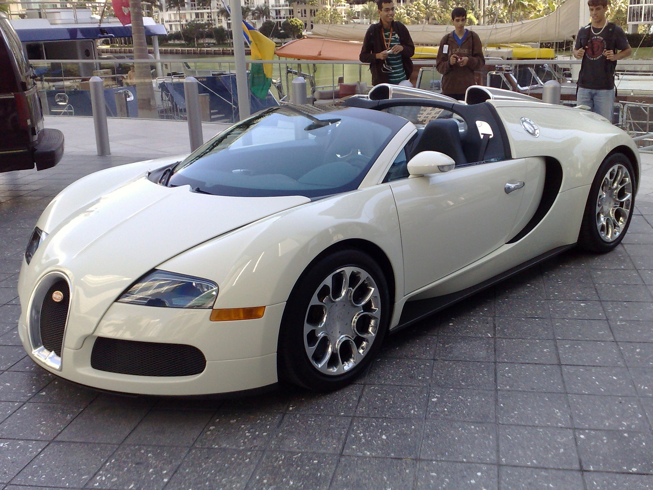 Bugatti Veyron EB 16.4 Grand Sport spotted in Miami.